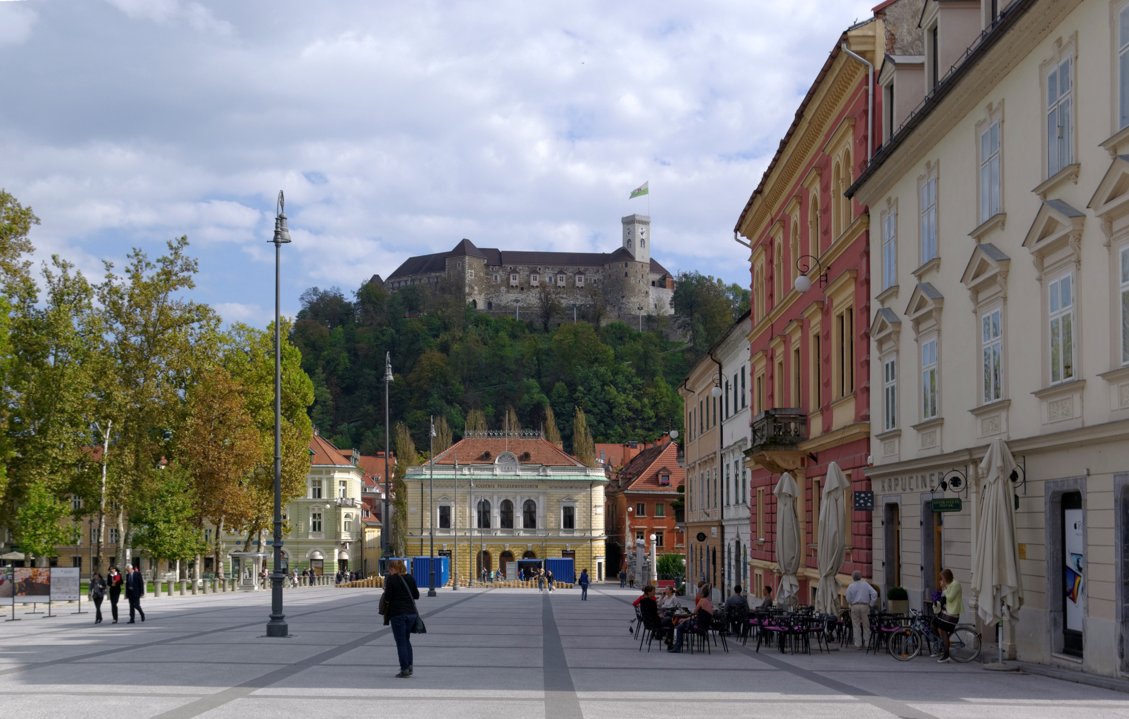 Slovenia, Ljubljana, Congress square with Philharmonic hall and castle in the background